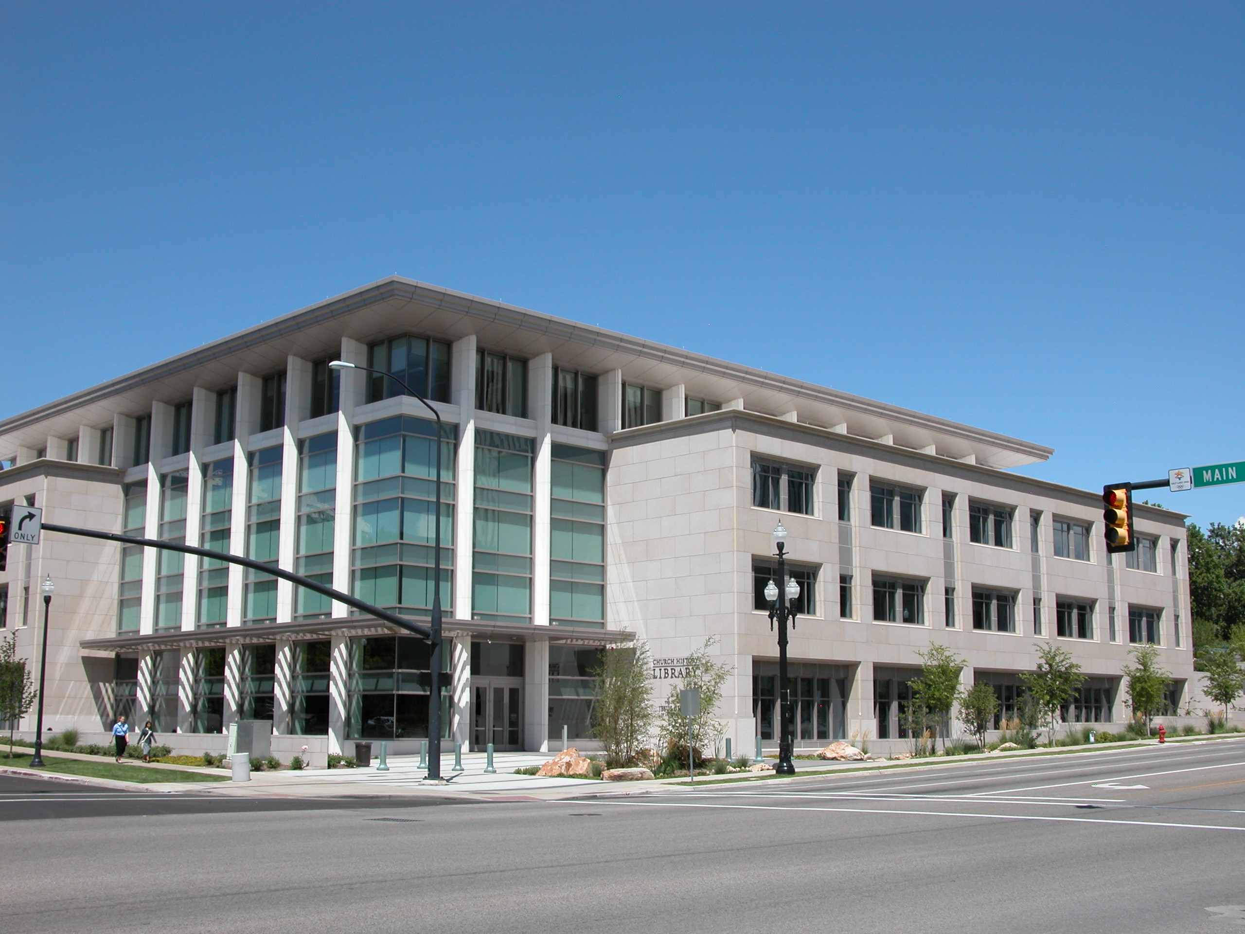 The Church History Library in Salt Lake City, Utah.. Not to be confused with Church History Museum or Family History Library.